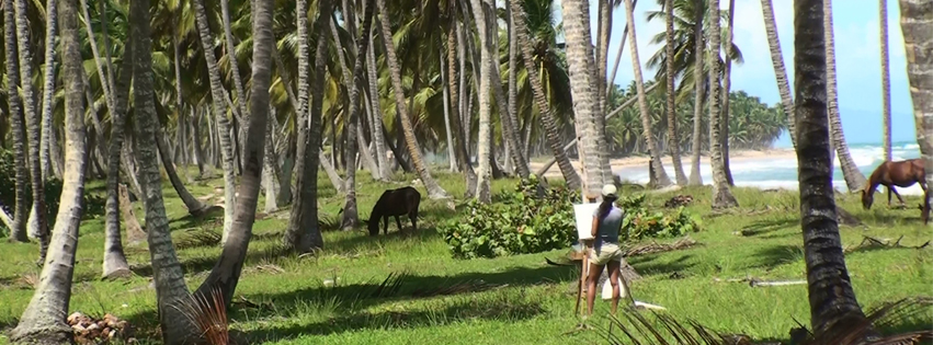 In 2009-2011, Olivia Peguero started on the Costa Esmeralda collection. Painted entirely en plein air along the beautiful coast surrounding the town of Miches, en la provincia de El Seibo en la República Dominicana, the artwork has become a historical record of the pristine coastal areas prior to the arrival of developers and tourism.